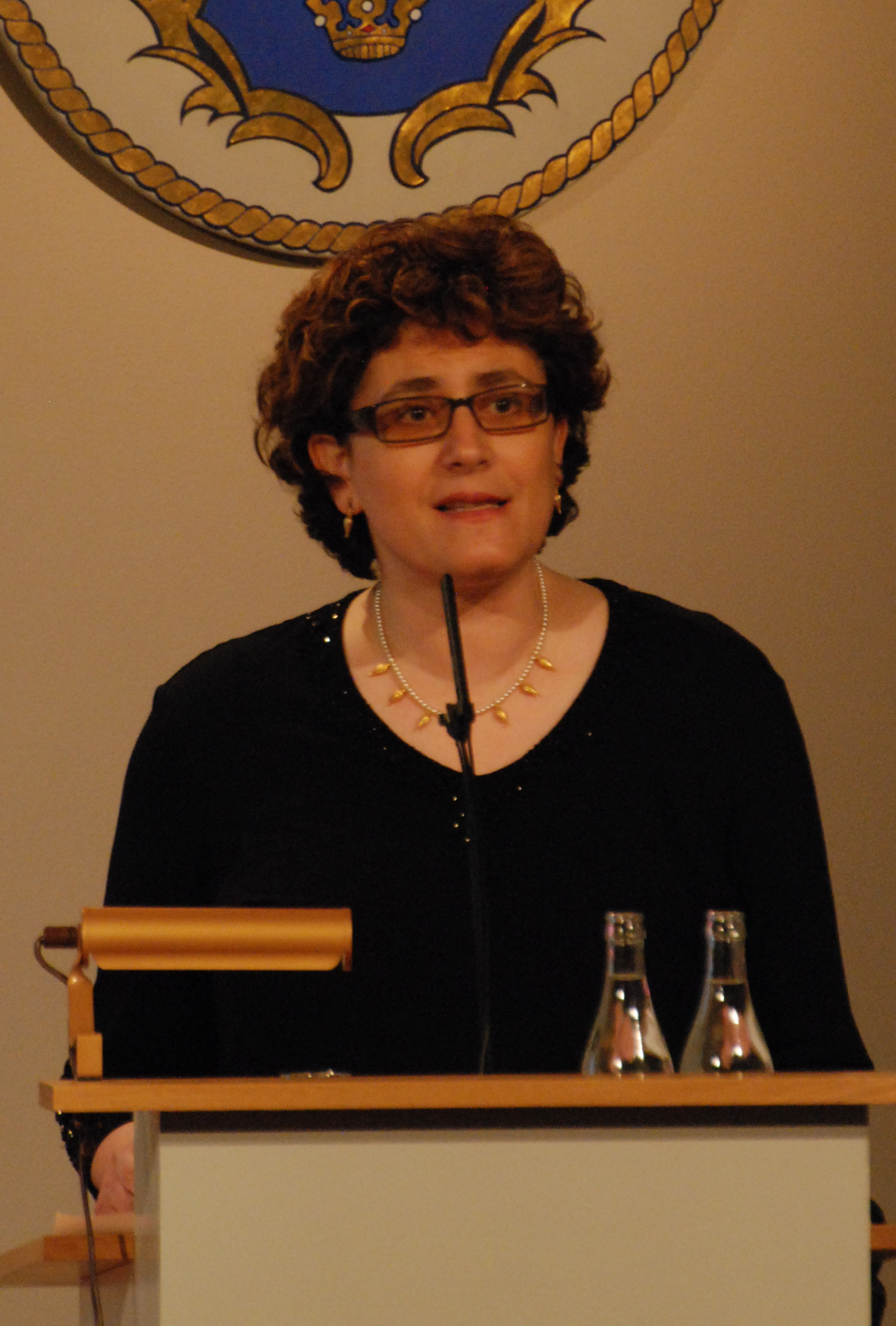 Crafoord Prize 2010, Prize award ceremony: Presentation of the laureate by Georgia Destouni.